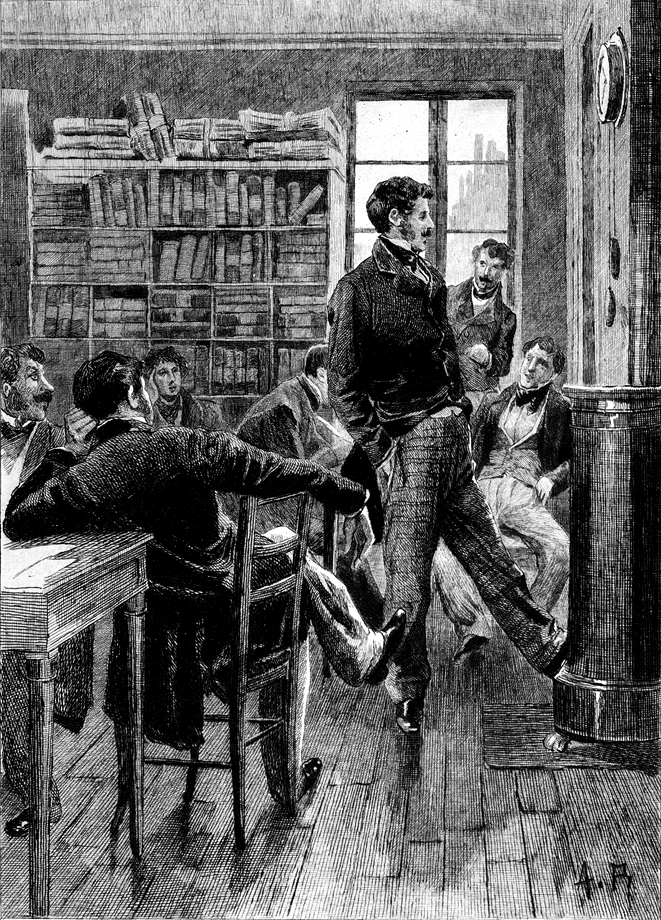 Title page of Honoré de Balzac's The Civil Service.